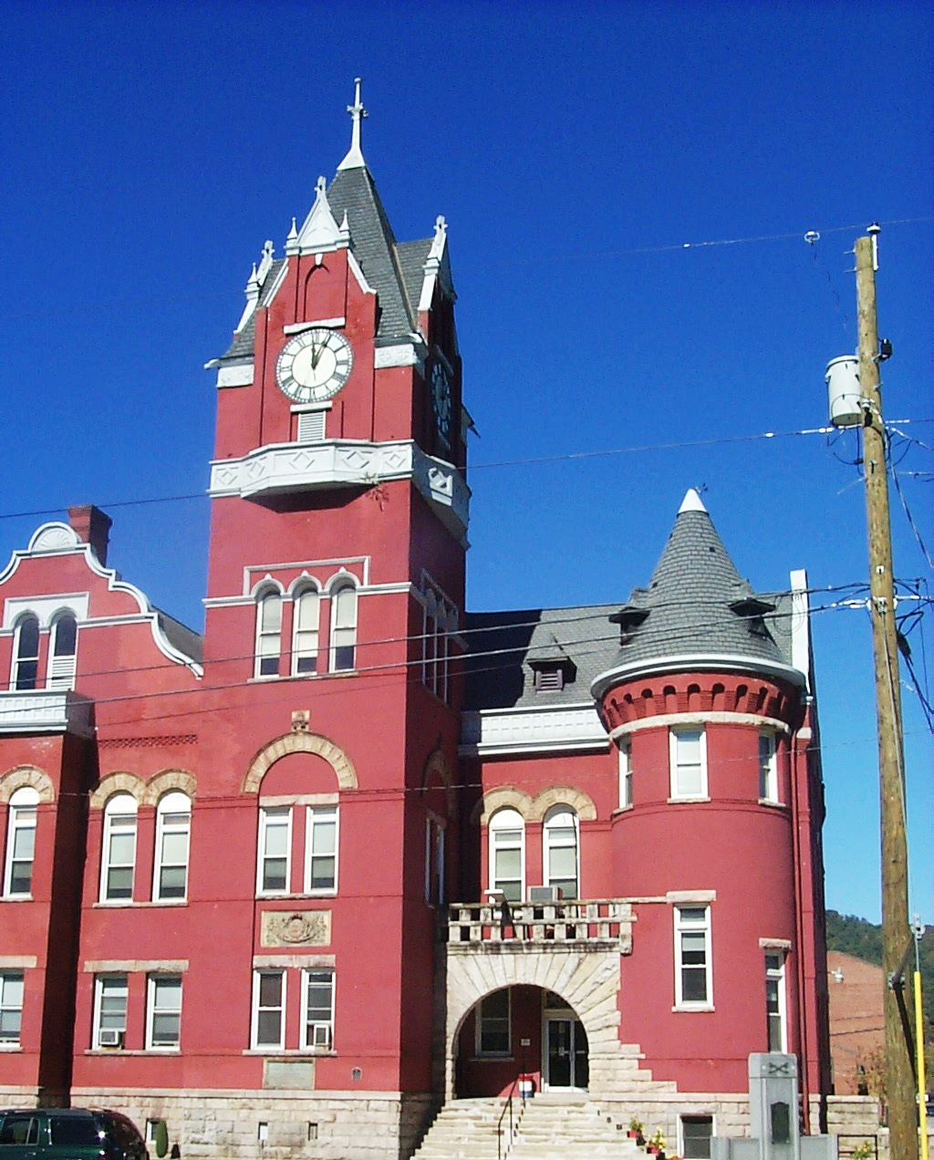 Tucker County Courthouse, photo recorded on Fall 2004 bicyle tour by WVhybrid.